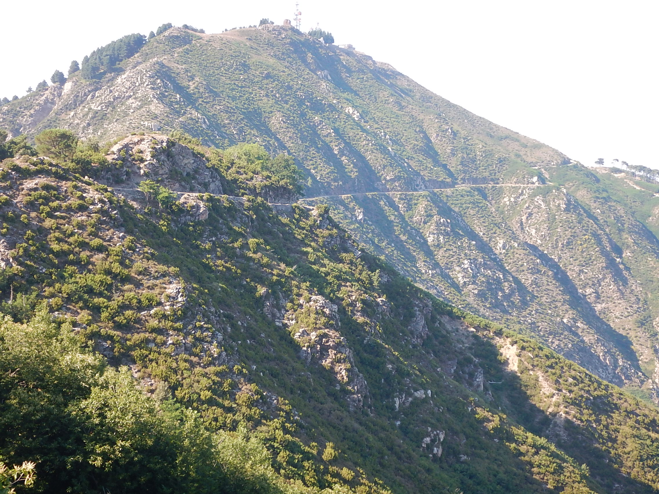 the Dinnammare mount, Peloritani above Messina, Sicily